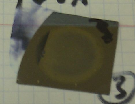 Porous Silicon from chemistry lab of IHT KNU